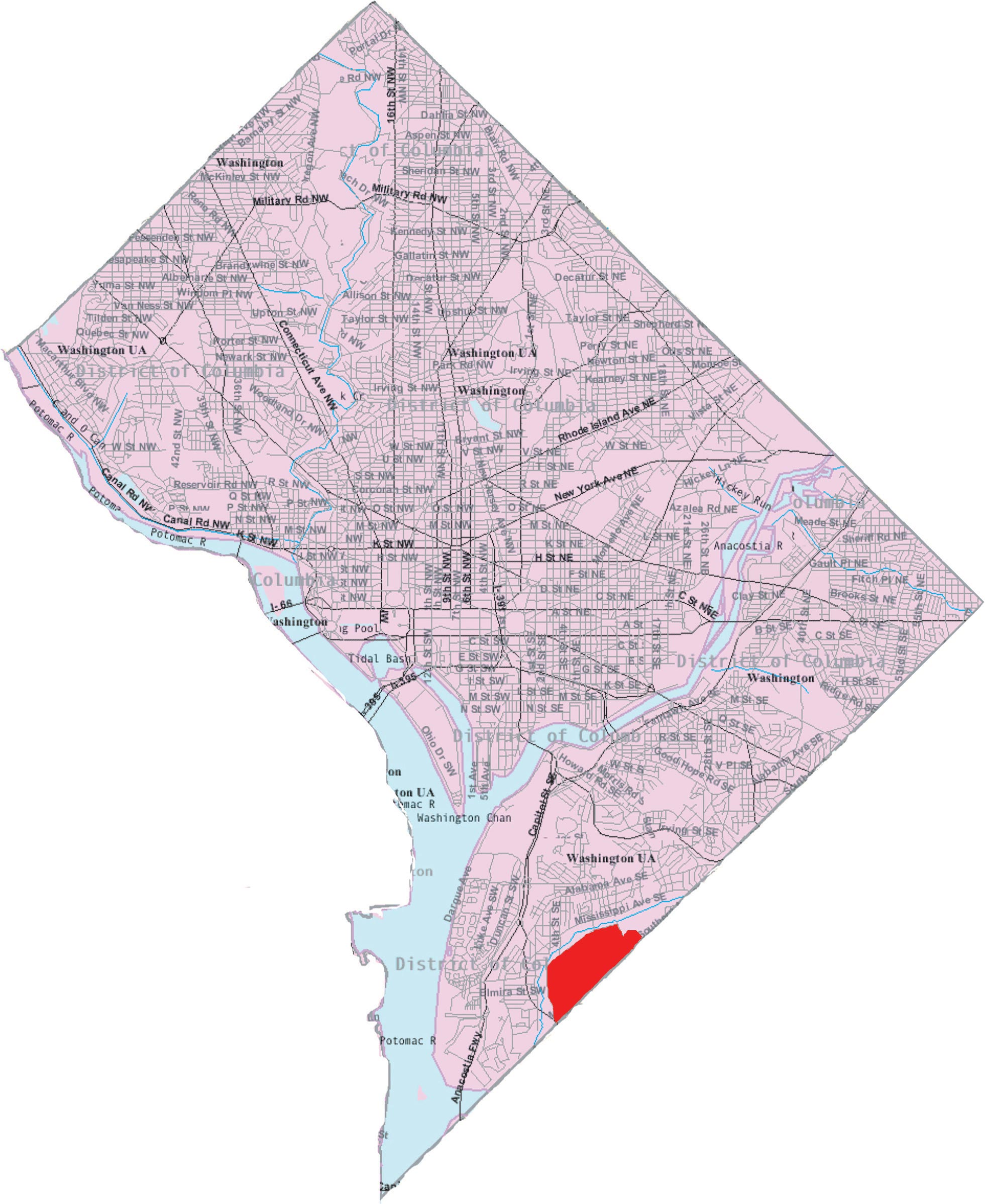 This image is a modified version of a self-generated reference map from the U.S. Census Bureau's American Factfinder at by Wikipedia user Msclguru.